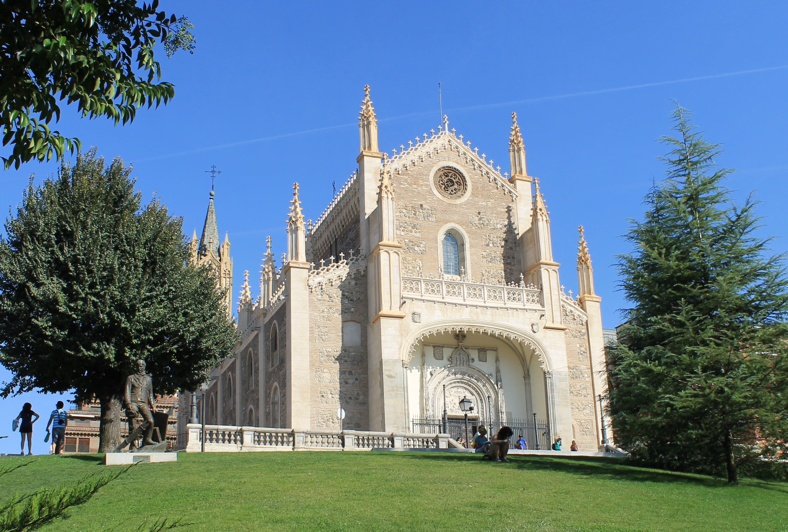 St. Jerome Royal Church